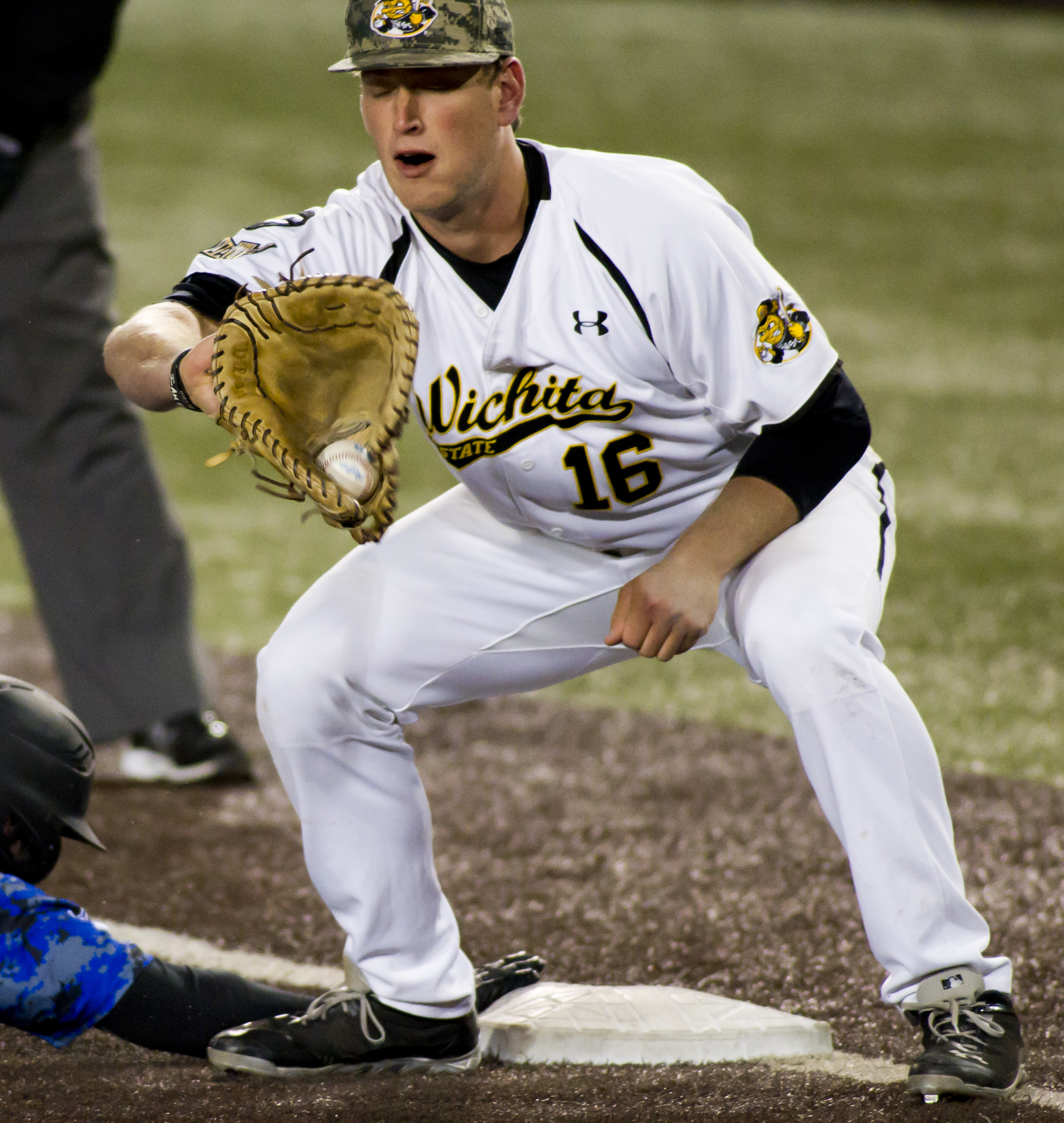 Cadet 1st Class Matt Thorne, Air Force Academy Falcons infielder, slides past a Wichita State University Shockers first baseman March 26, 2013, McConnell Air Force Base, Kan. Thorne and the Falcons lost the first game 3-2 dropping the Falcons to 8-14 and bringing the Shockers up to 13-11. (U.S. Air Force photo/ Senior Airman Armando A. Schwier-Morales)